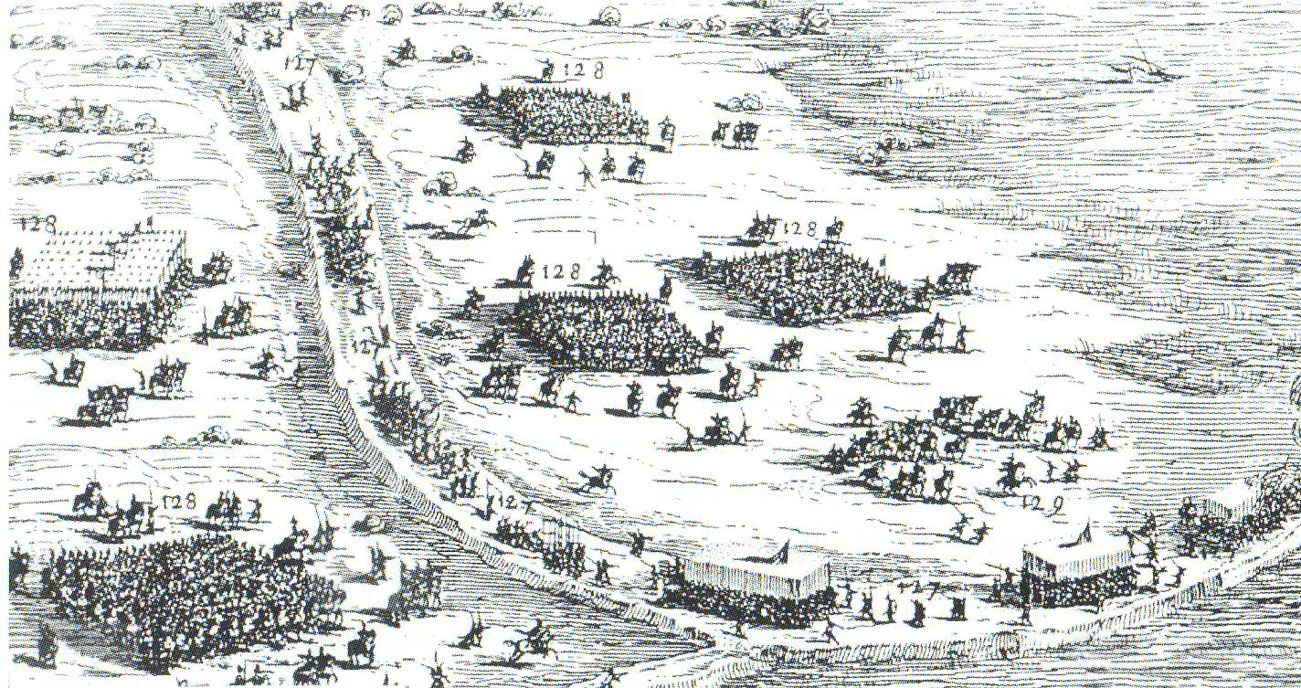 Attack on Terheijden by the troops of the Republic during the Siege of Breda 1624-1625